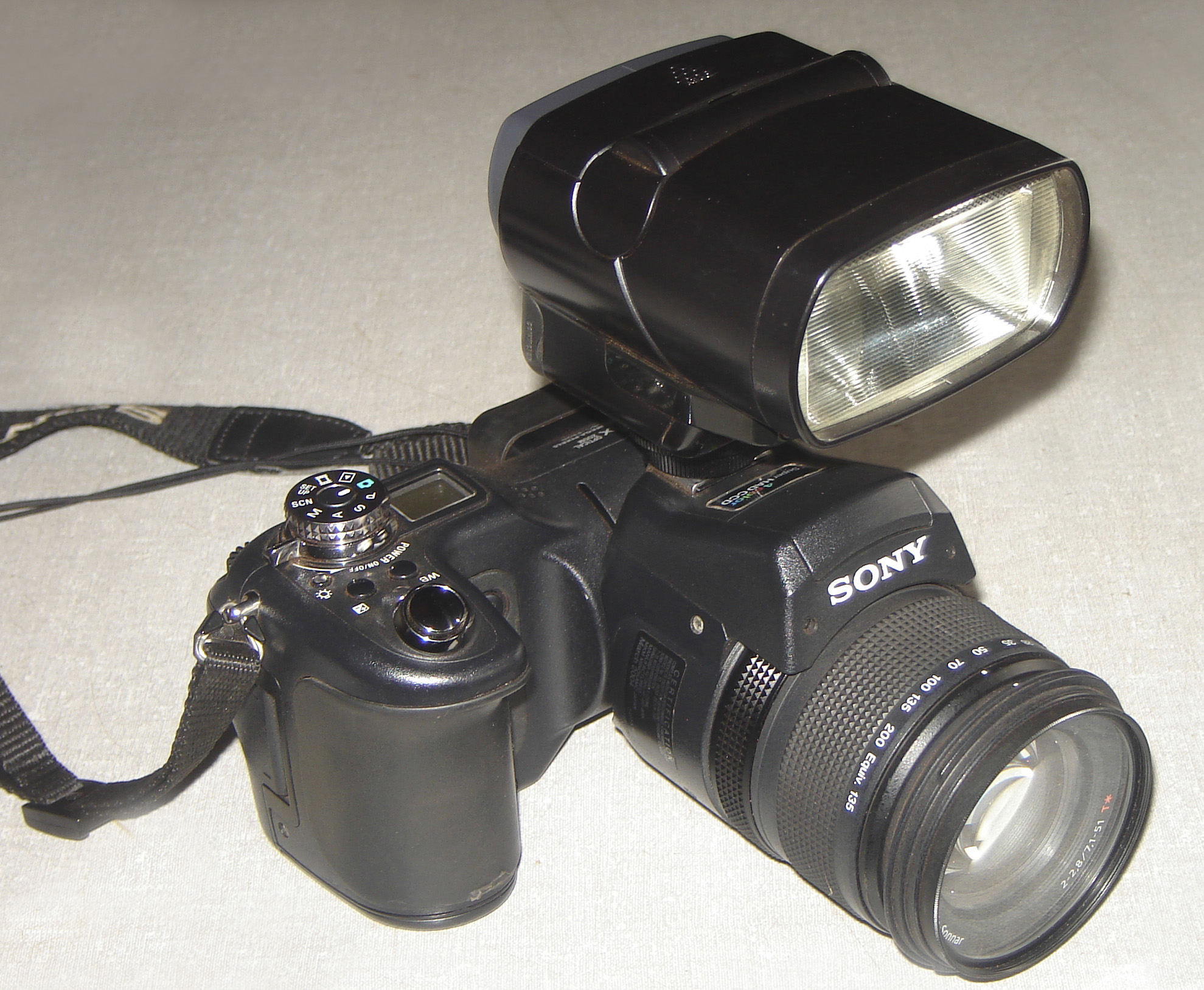 Sony Cyber-shot DSC-F828 Digital Camera, Sony HVL-F32X TTL Flash